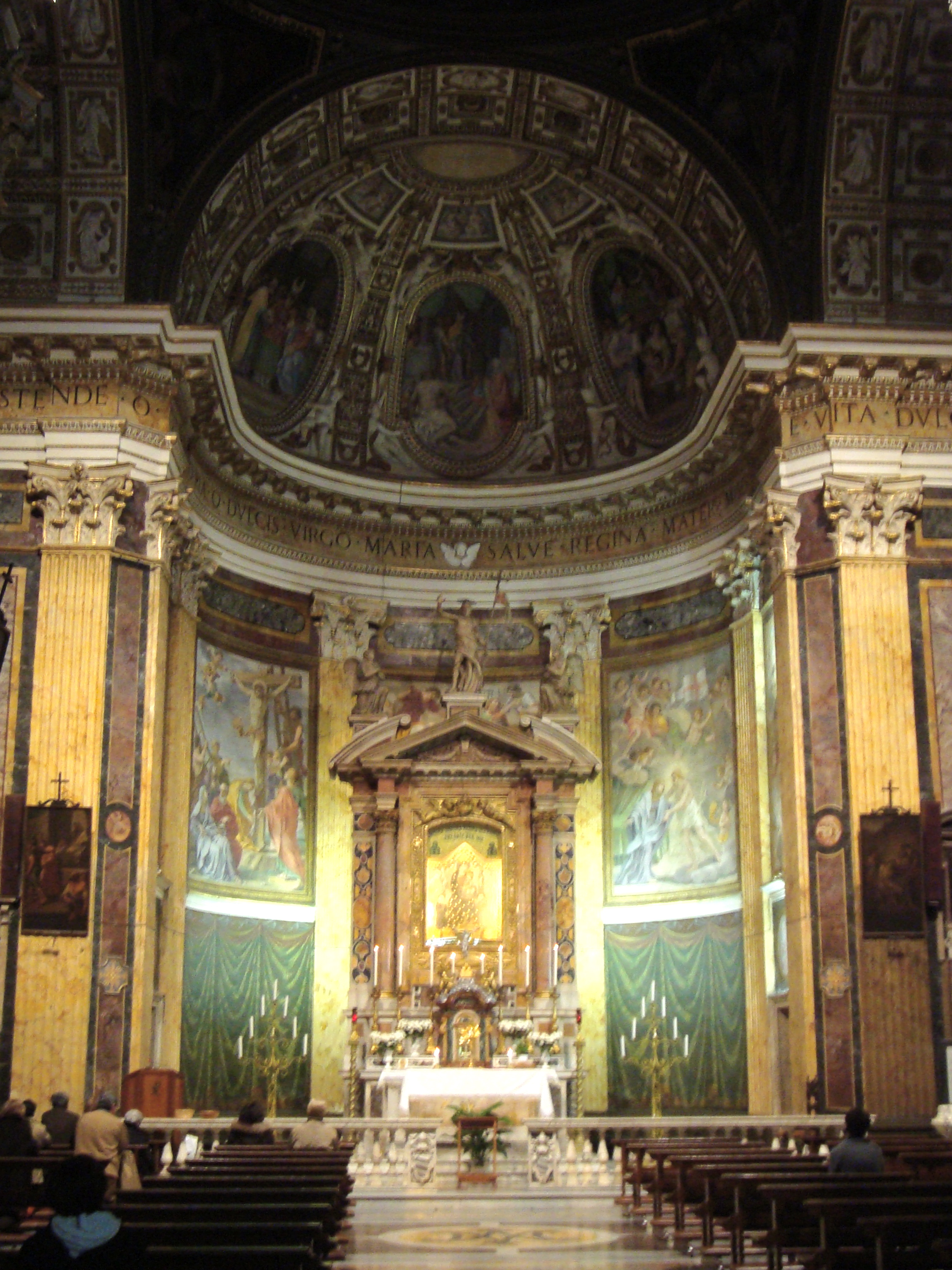 Interior of the church Santa Maria dei Monti, Rome